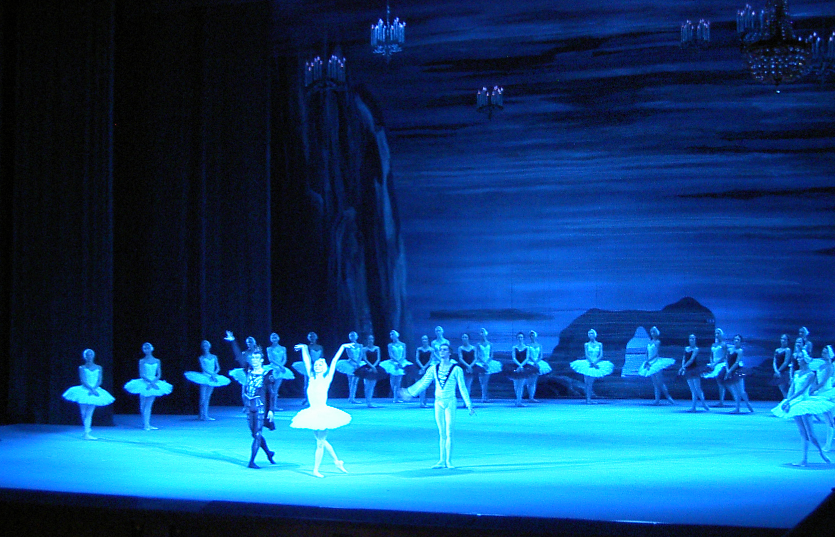 Swan Lake performed at the interim stage of the Bolshoi Theater, which was in use while the old building was being renovated.